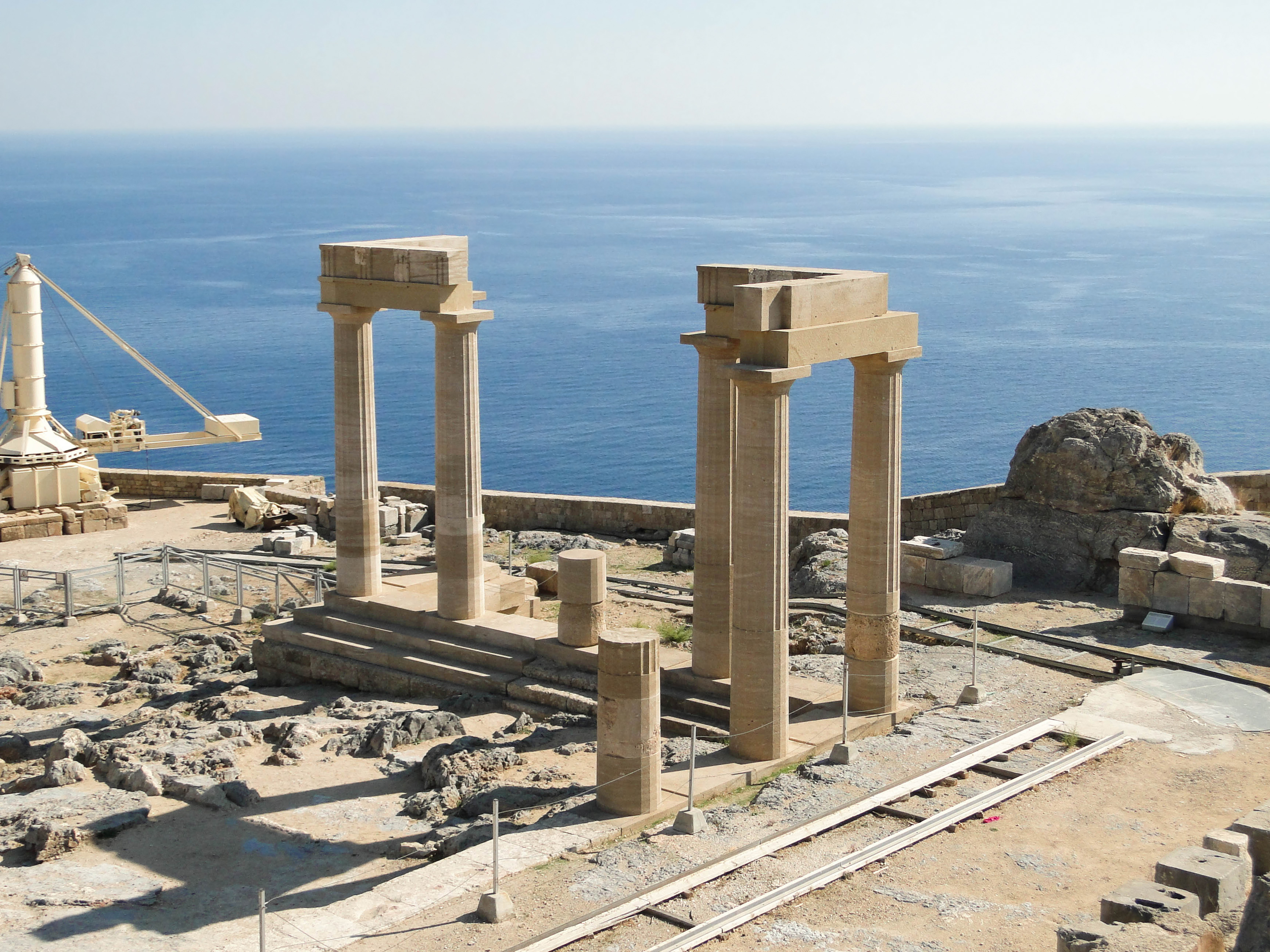 Columns on the hellenistic stoa of the Acropolis of Lindos, Rhodes, Greece